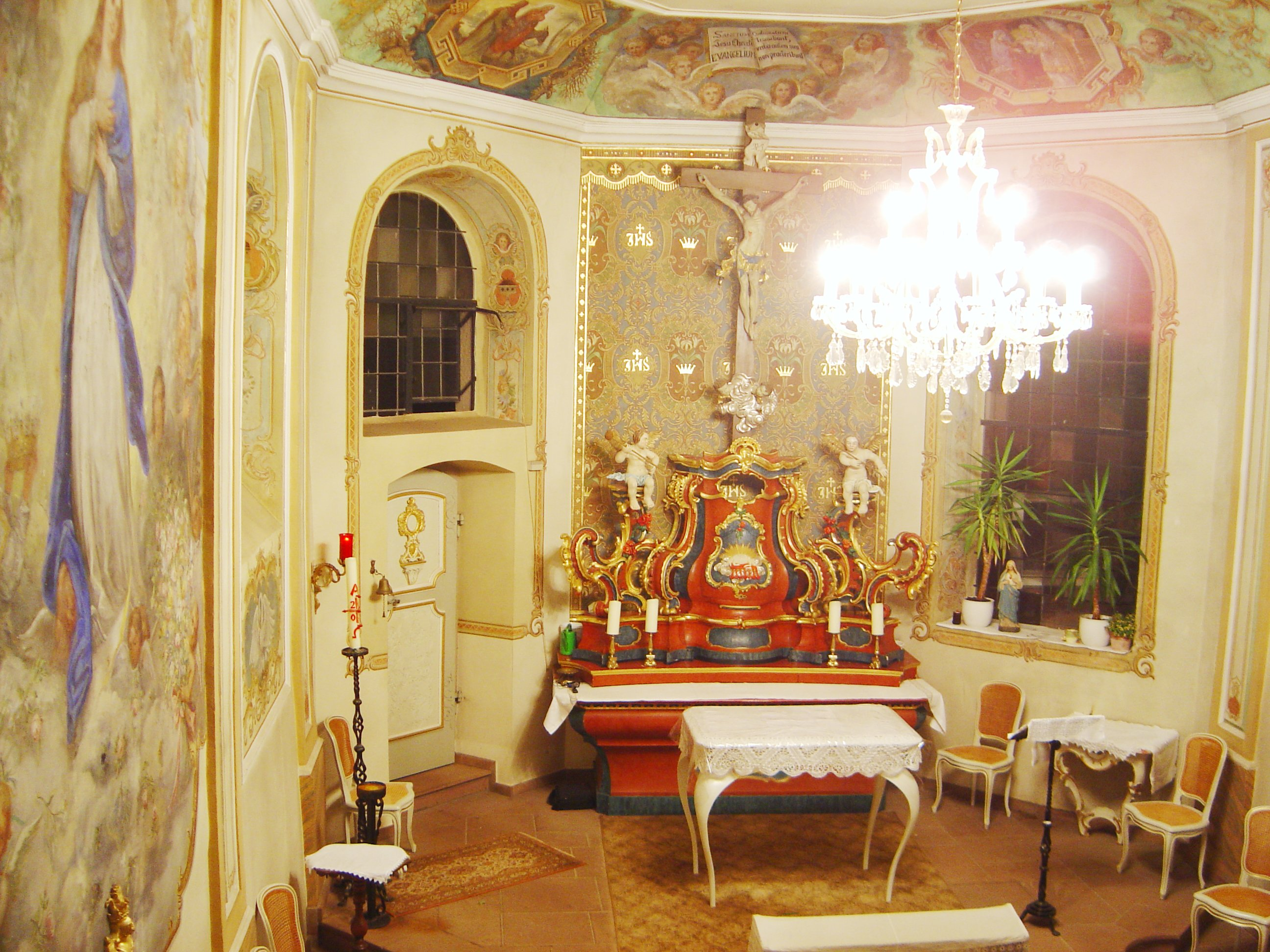 the chapel at Schloß Dagstuhl, Saarland, Germany Photo taken by myself